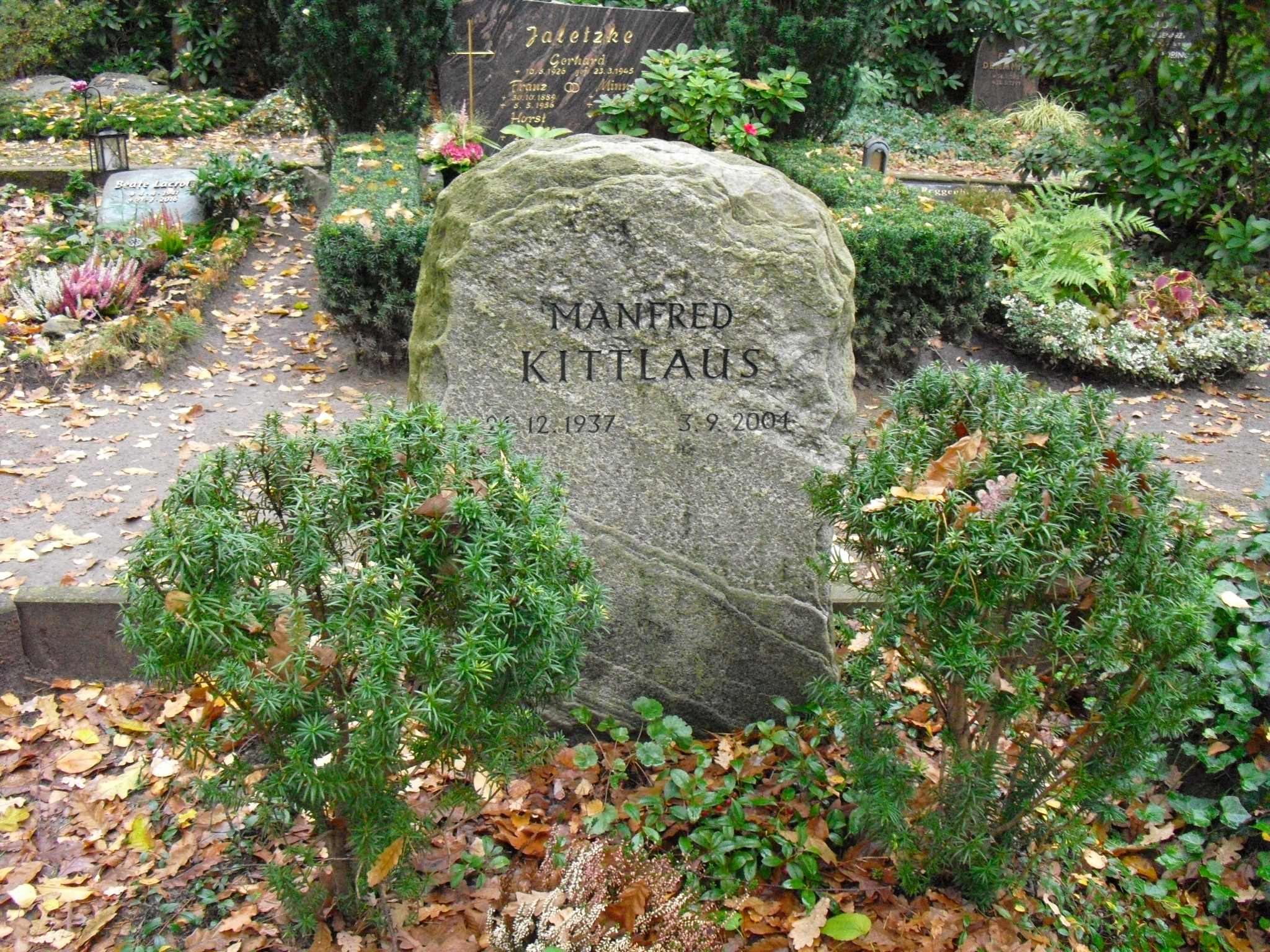 Grave of German chief investigator Manfred Kittlaus at Friedhof Heerstraße in Berlin-Westend